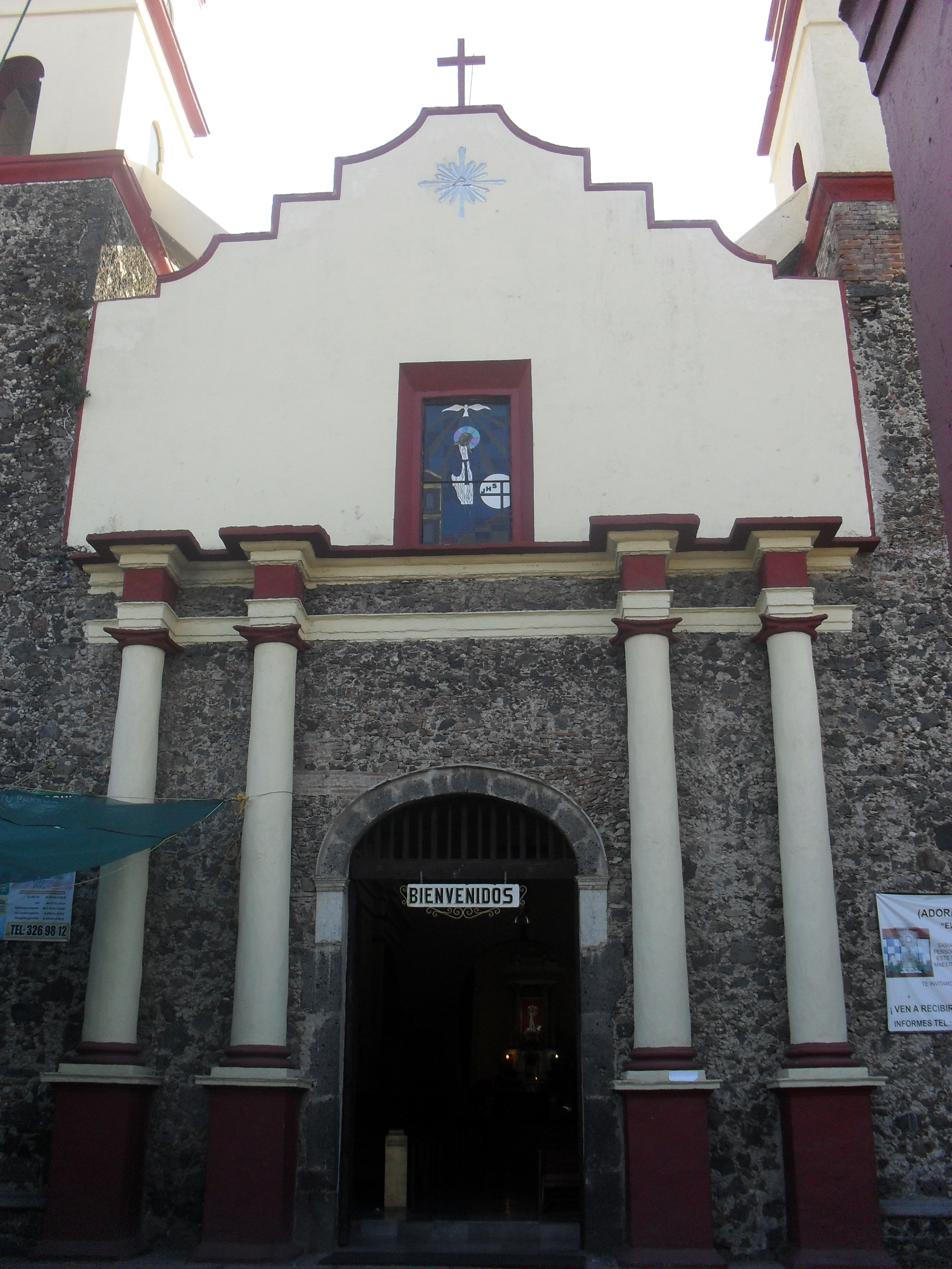 Parish: Asunción de María